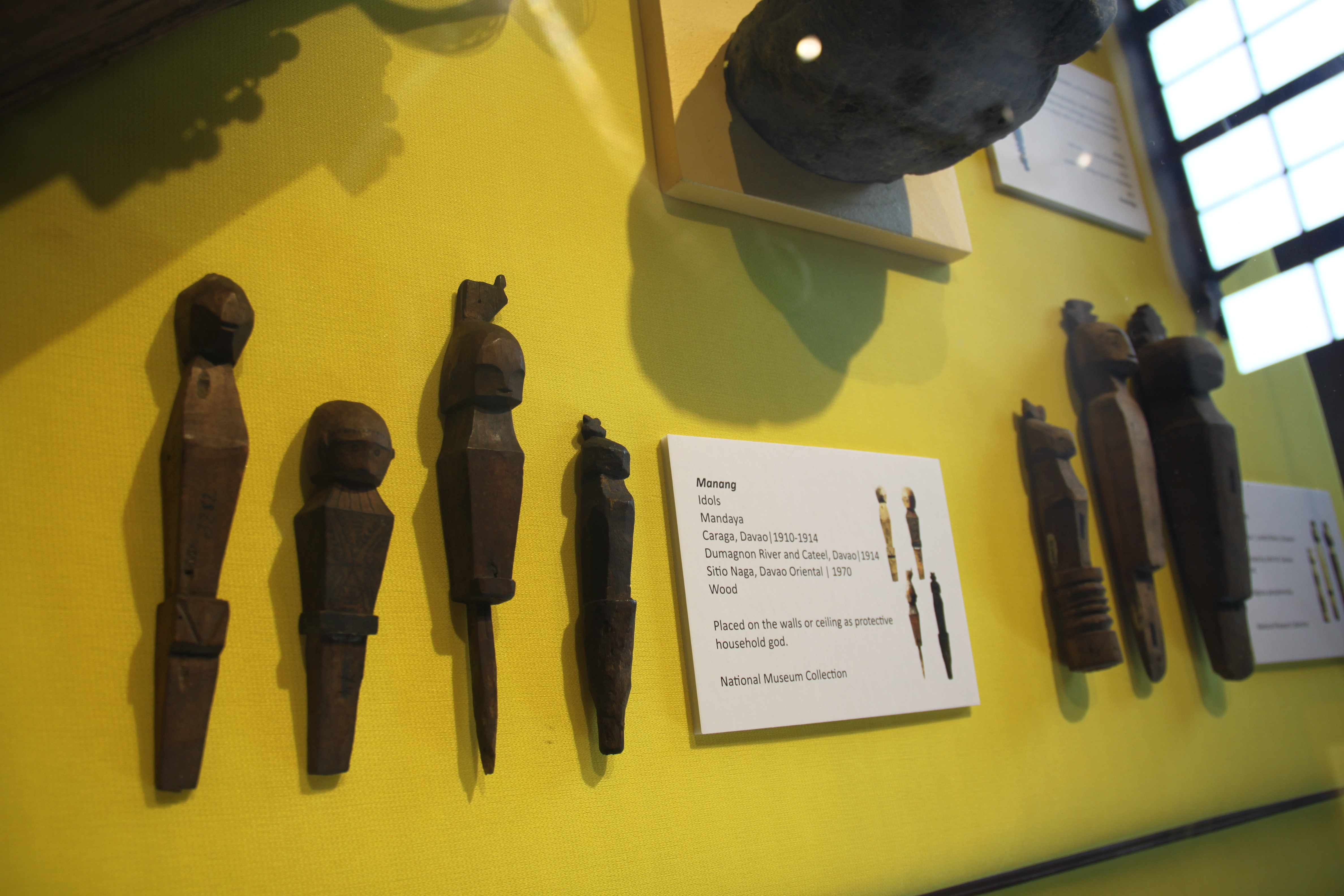 Manang wooden idols of the Mandaya people, from Caraga and Davao, ranging from 1910-1970. Placed on walls or ceilings as protective household gods.